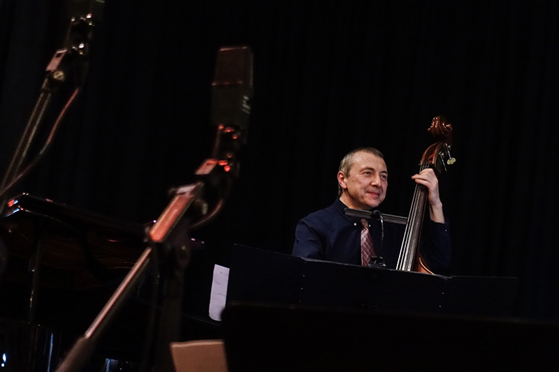 Boris Kozlov playing with Aarhus Jazz Orchestra (Denmark 2017)